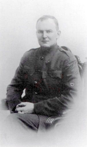 Charles Theophilus Hahn aka Charles Theophilus Headley (1 March 1870 Wandsworth, Surrey - 16 September 1930 Holborn, London), Anglican missionary, botanical illustrator and artist